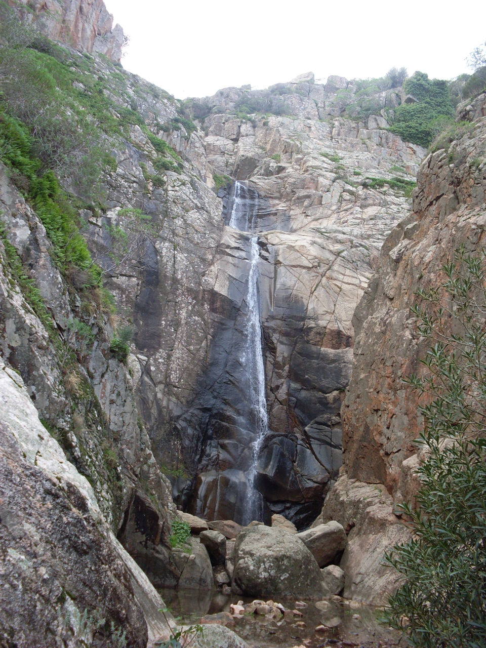 Sa Spendula fall near Villacidro (Sardinia, Italy)